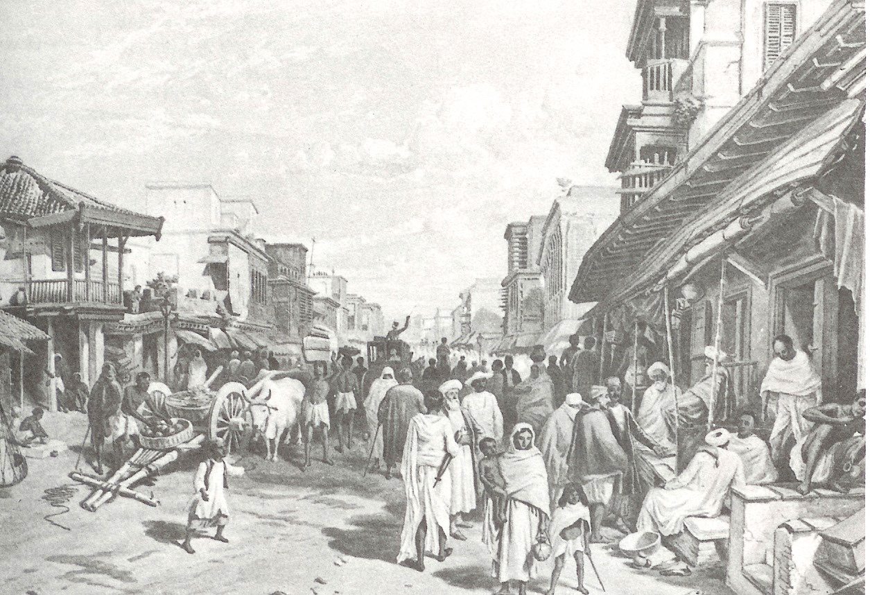 Simpson, William, India Ancient and Modern Published in 1867